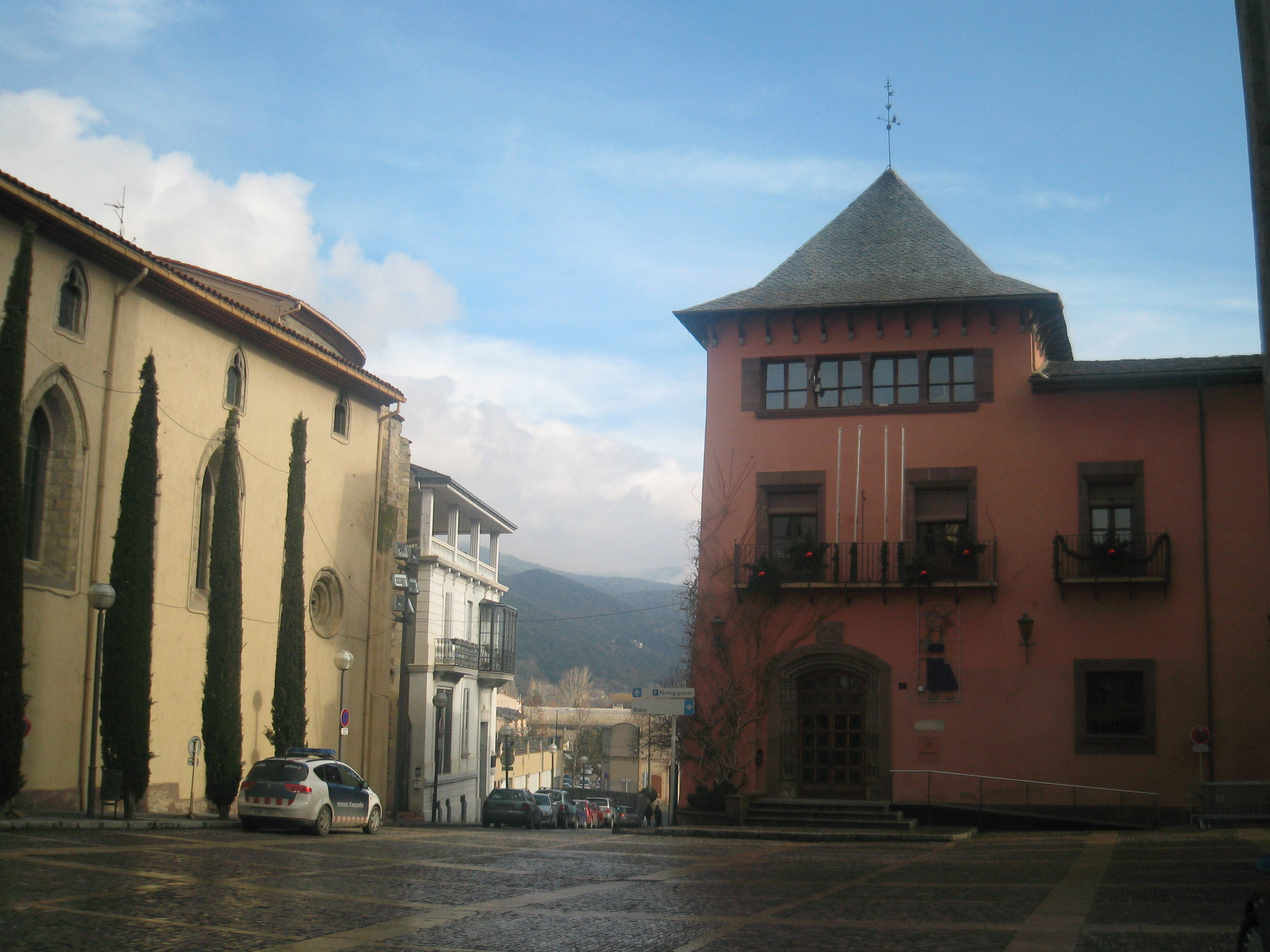 La Seu d'Urgell town hall